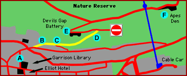 Map of Inglis Way, Gibraltar